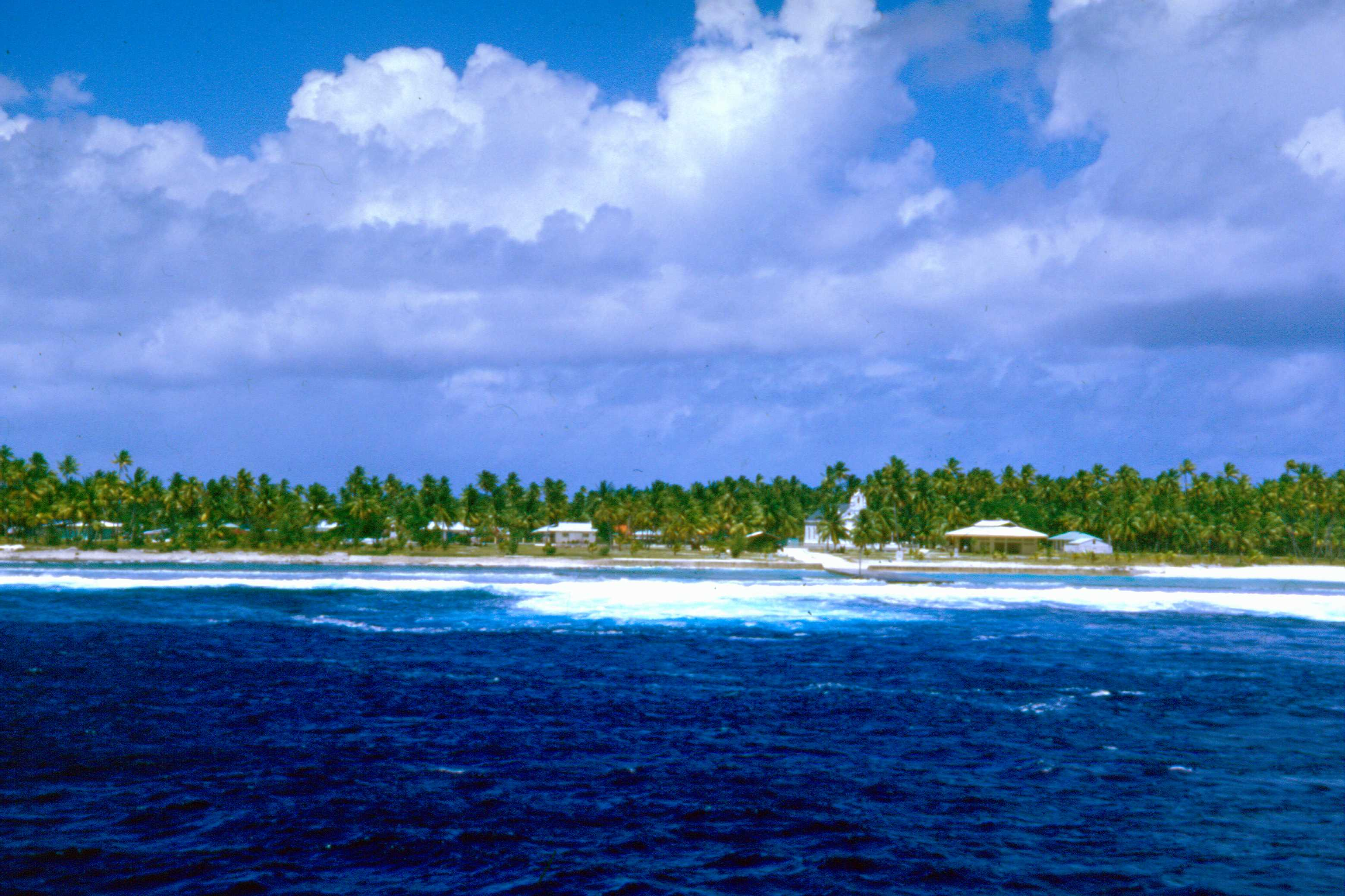 Main island of Puka Rua Atoll, Tuamotu Archipelago, French Polynesia